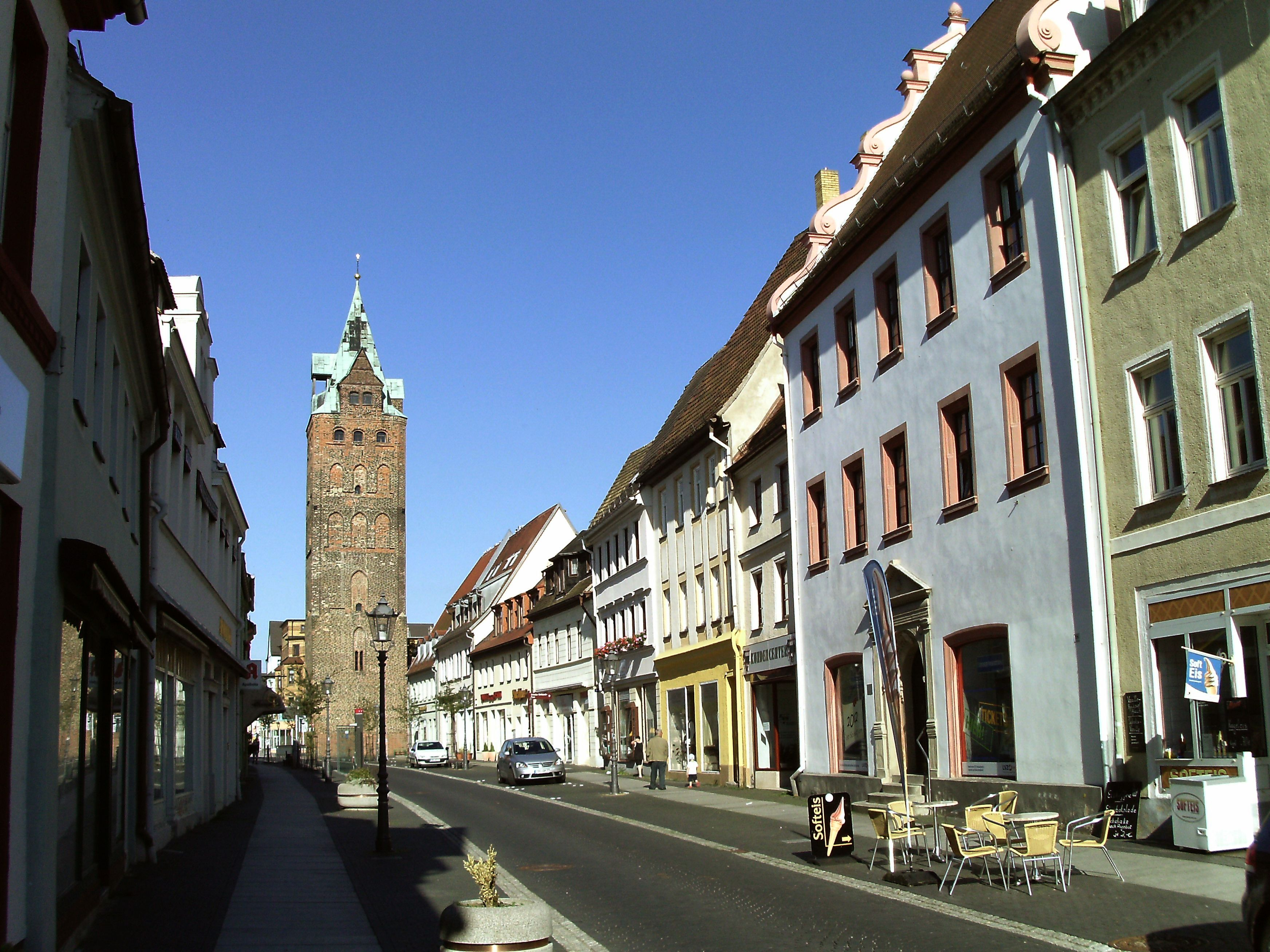 Breite Strasse an "Broad Tower" in Delitzsch (Nordsachsen district, Saxony)